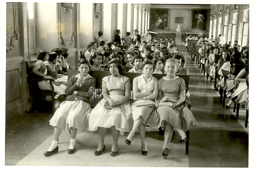 Auditorium of the Preparatory College of Xalapa, Xalapa de Enríquez, Veracruz